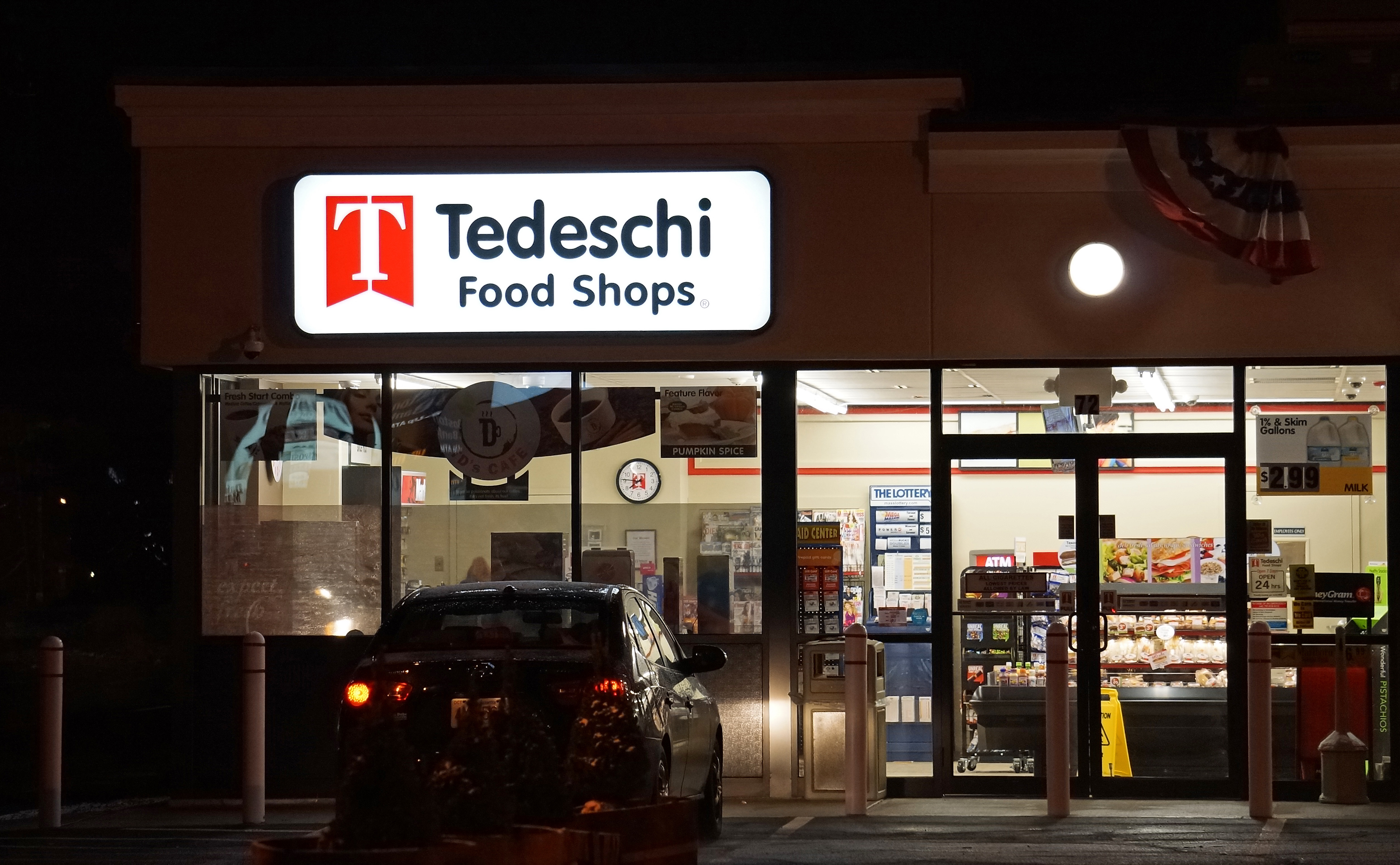 Tedeschi food store newly opened, Revere, Massachusetts.